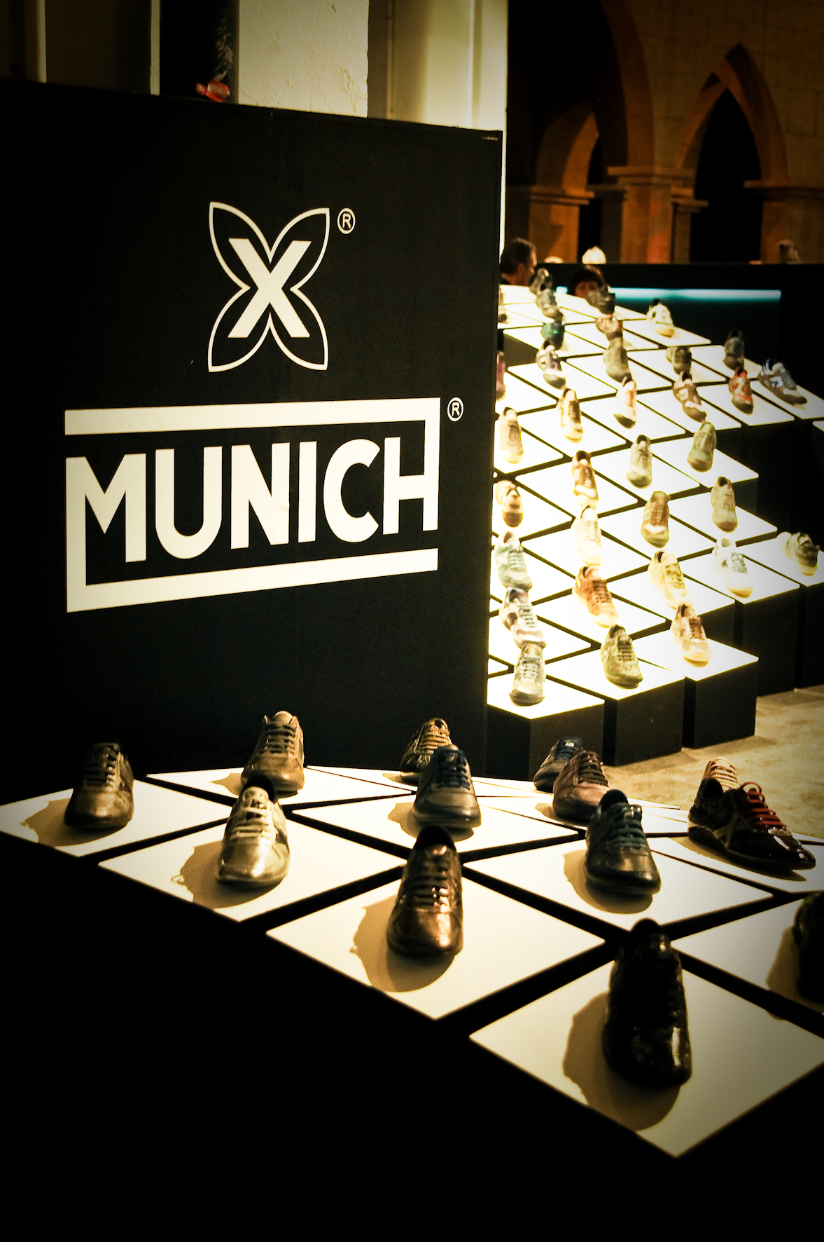 MUNICH shoes at The Brandery Winter Edition 2010